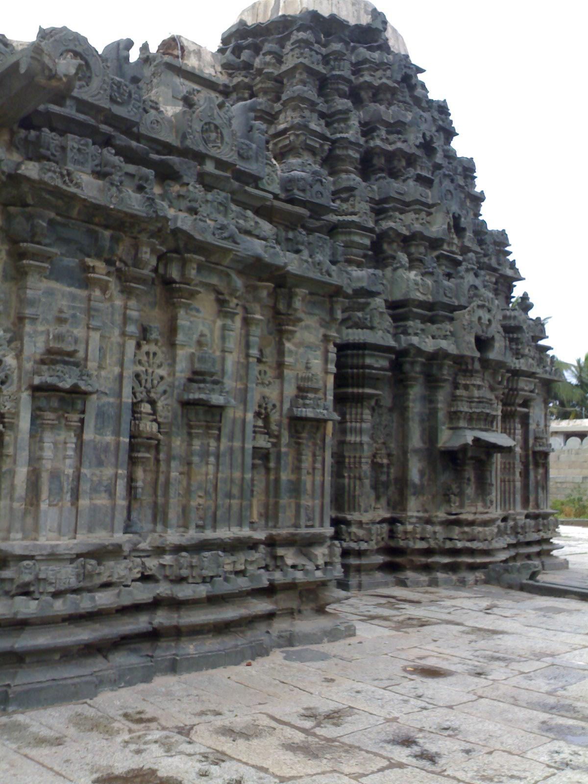 Annigeri Amriteshwara Temple Source and Author : Manjunath Doddamani, Gajendragad / Hubli, Karnataka(North), India